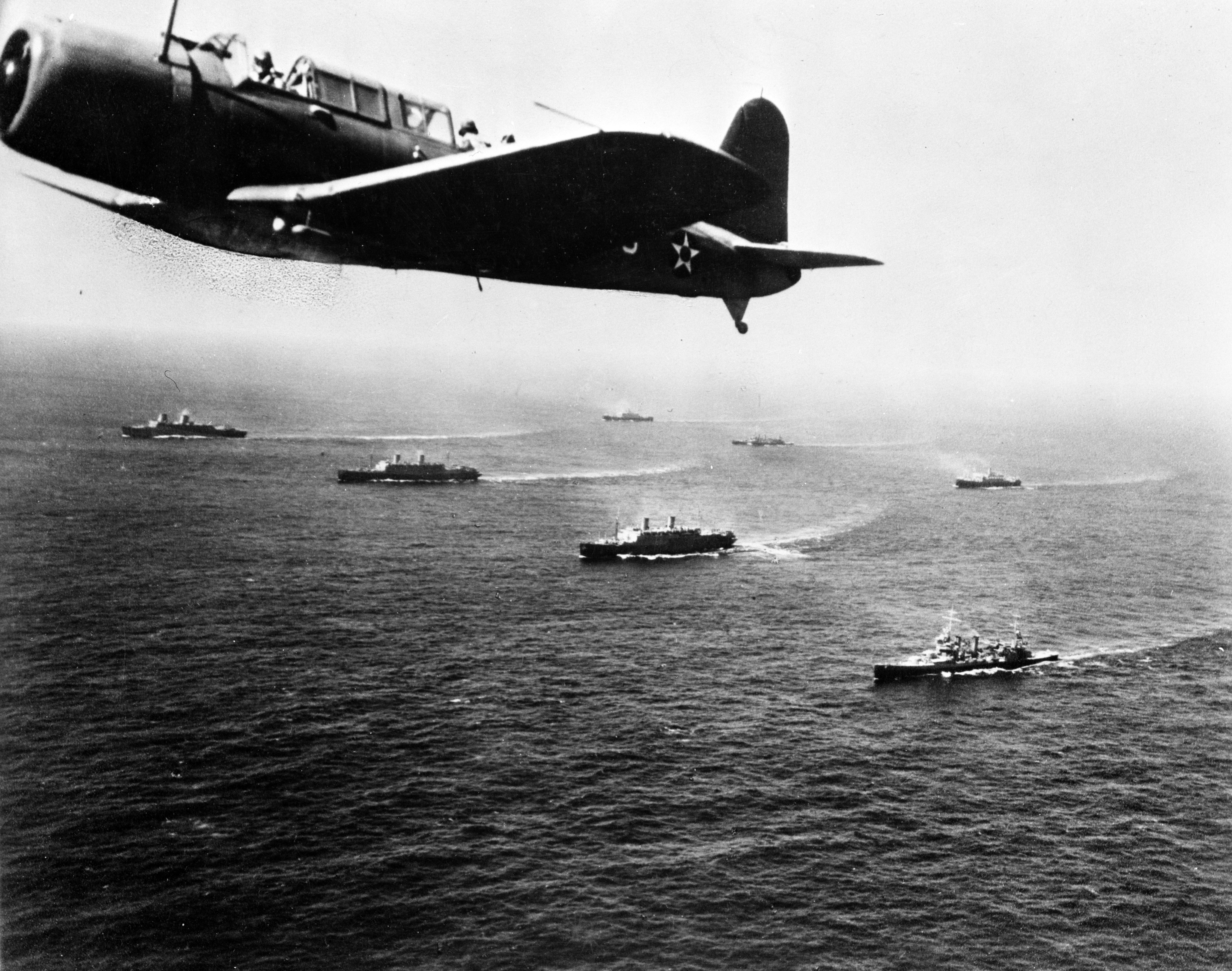 LC-USE6-D-008870: SB2U "Vindicator" aircraft from USS Ranger (CV 4) returns from a patrol flight of the area which a convoy is passing. Efficient work of planes count in large measure of the relatively few ships that are successfully attacked by German submarine wolf packs, photograph circa WWII. Collection of Office of War Information. (7/17/2014).